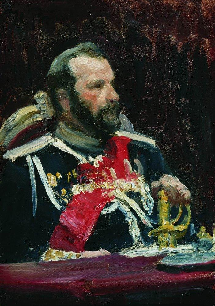 Portrait of War Minister, infantry general and member of State Council State Aleksei Nikolayevich Kuropatkin. Study for the picture Formal Session of the State Council. Oil on canvas. 62 × 44 cm. Conservation area of the State unified Museum of History, Architecture and Art, Pskov.